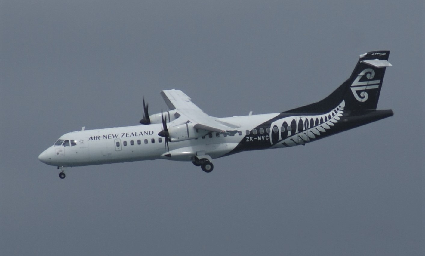 Mount Cook - Air New Zealand ATR72 landing at Wellington on a windy December afternoon.